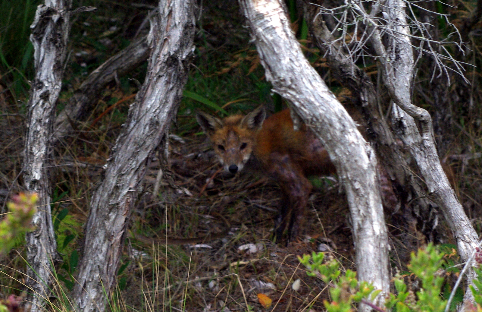 A feral Red Fox in Mornington Peninsula National Park, southeastern Australia. The animal has advanced mange.